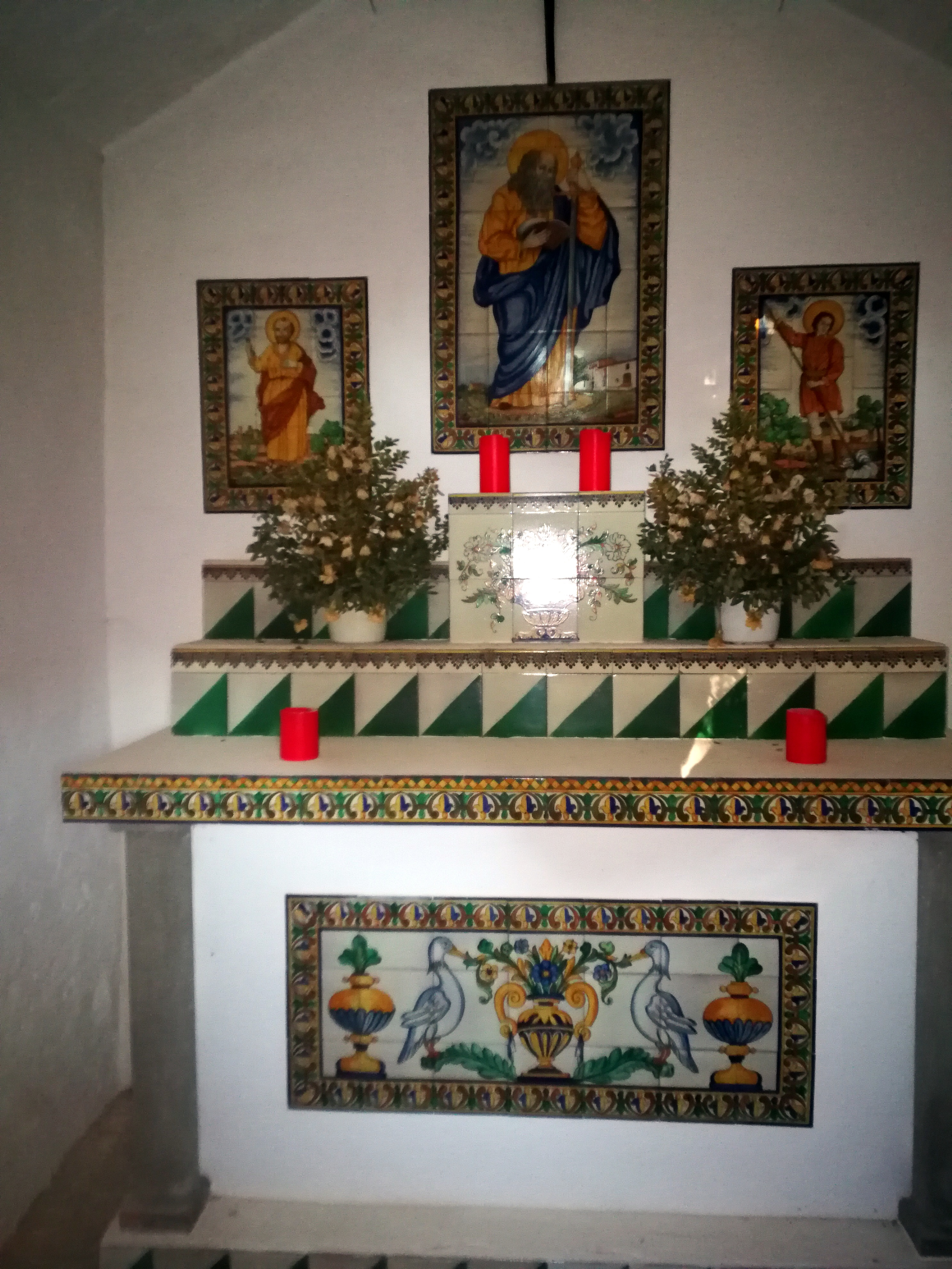 Saint Paul's altar